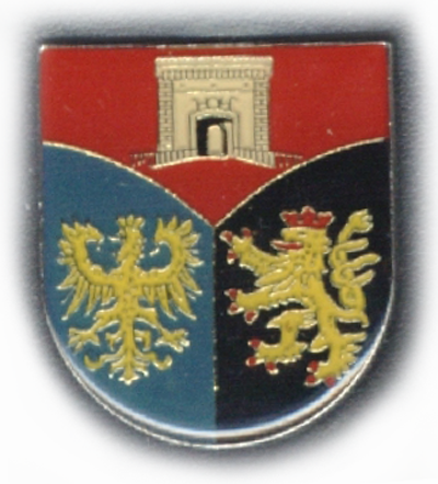 Staff & HQ Company 2nd Logistic Briagde